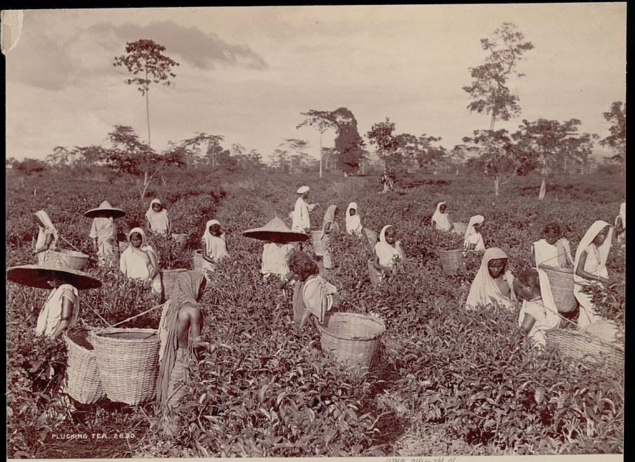 Assamese women in costume, picking tea leaves.